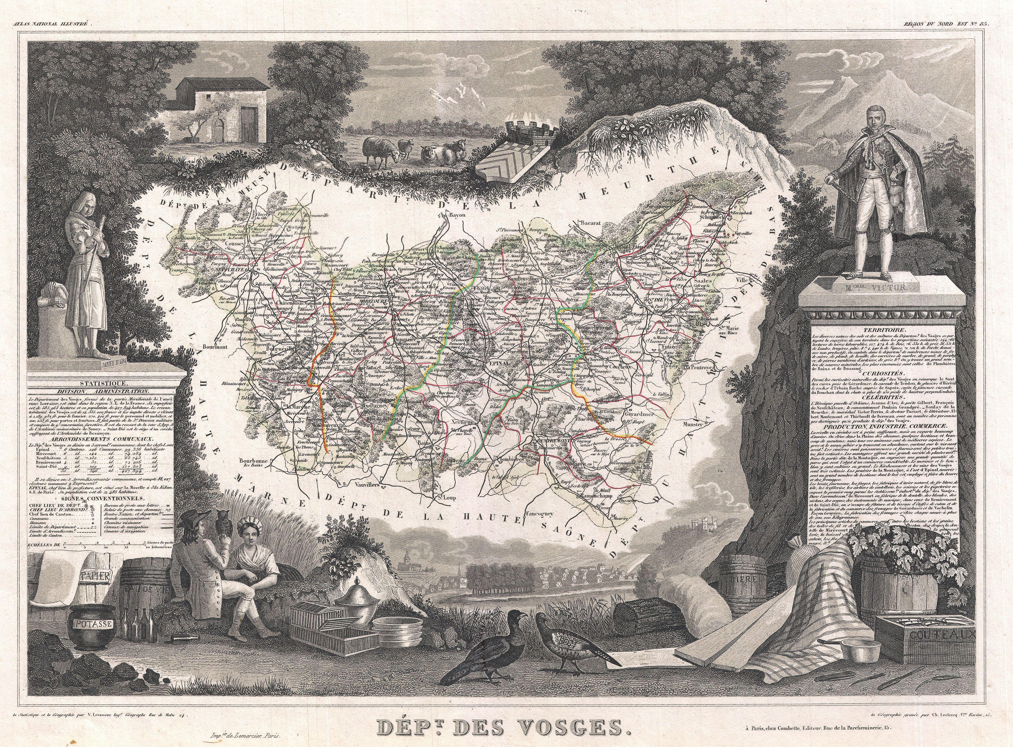 1852 map of the French department of Vosges, France. The map proper is surrounded by elaborate decorative engravings designed to illustrate both the natural beauty and trade richness of the land. There is a short textual history of the regions depicted on both the left and right sides of the map. Published by V. Levasseur in the 1852 edition of his Atlas National de la France Illustree.